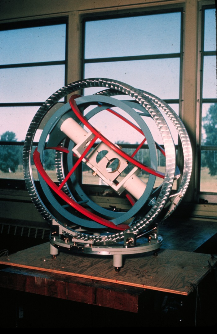 1967 Proton magnetometer from NOAA's archives